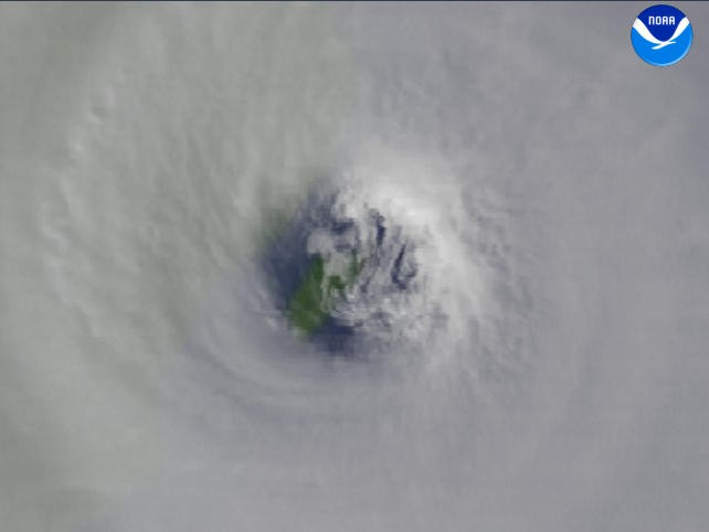 Image taken October 21, 2005. The image shows the eye of Hurricane Wilma passing over the island of Cozumel in the Quintana Roo state of Mexico. Latitude: 20:29:43N Longitude: 86:52:36W. Observation Device: GOES-12 1 km visible imagery. Visualization Date: October 21, 2005 17:13:24